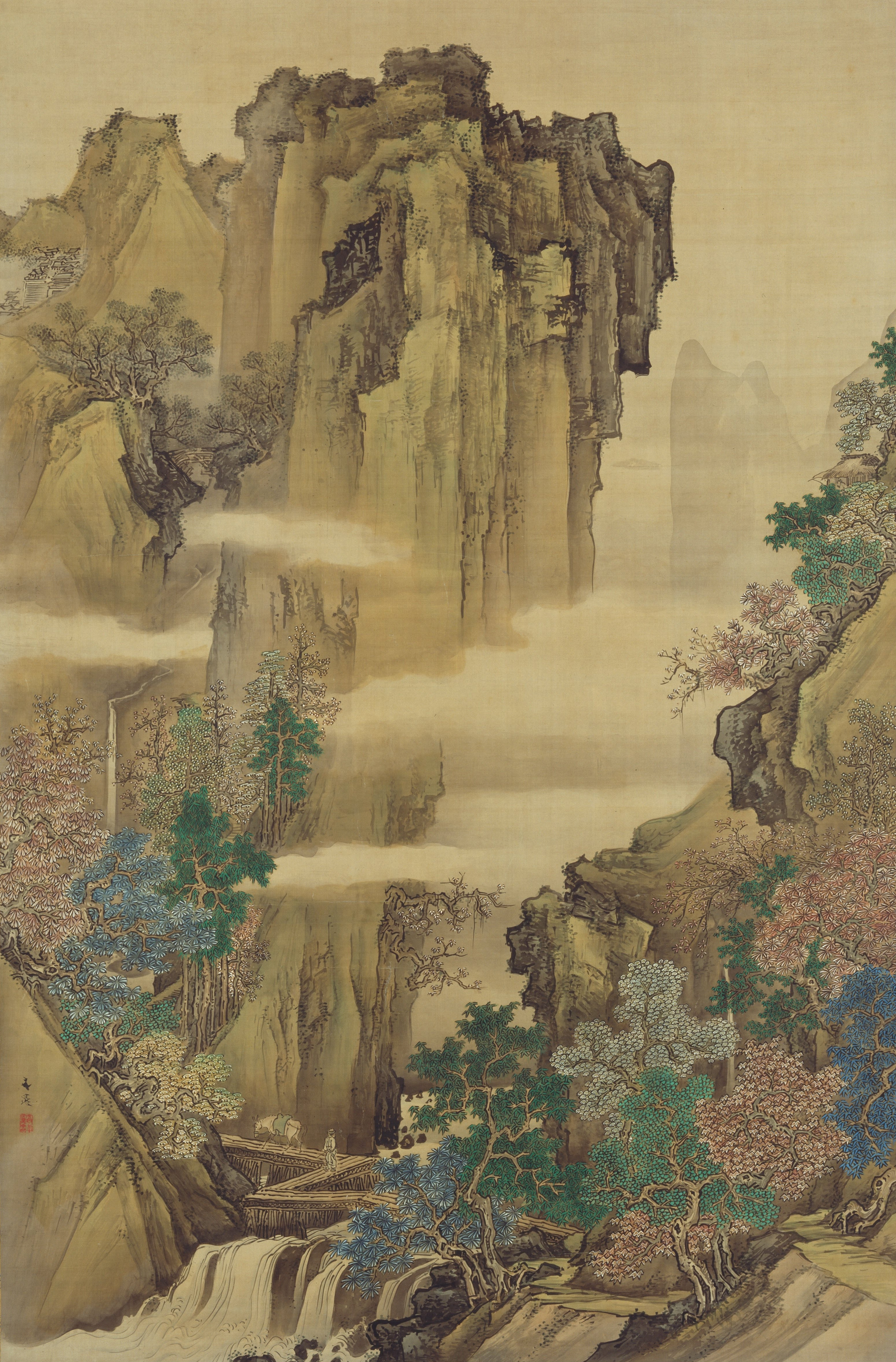 Blue and Green Landscape, by Tani Buncho, Tokyo Fuji Art Museum, Hachiōji, Tokyo, Japan